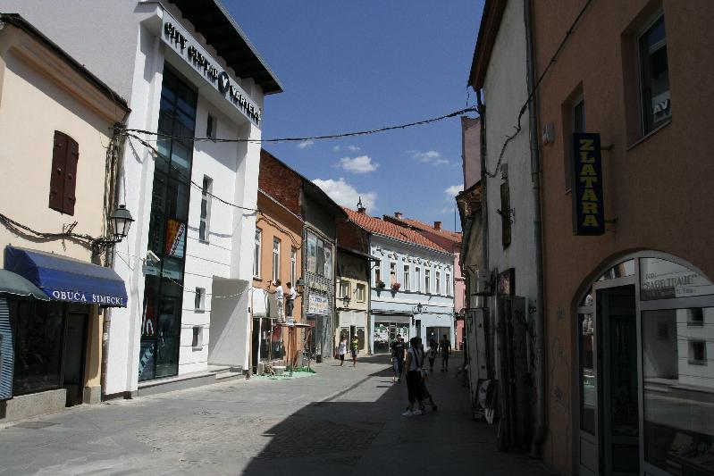 A street of Tuzla, Bosnia (summer 2007).